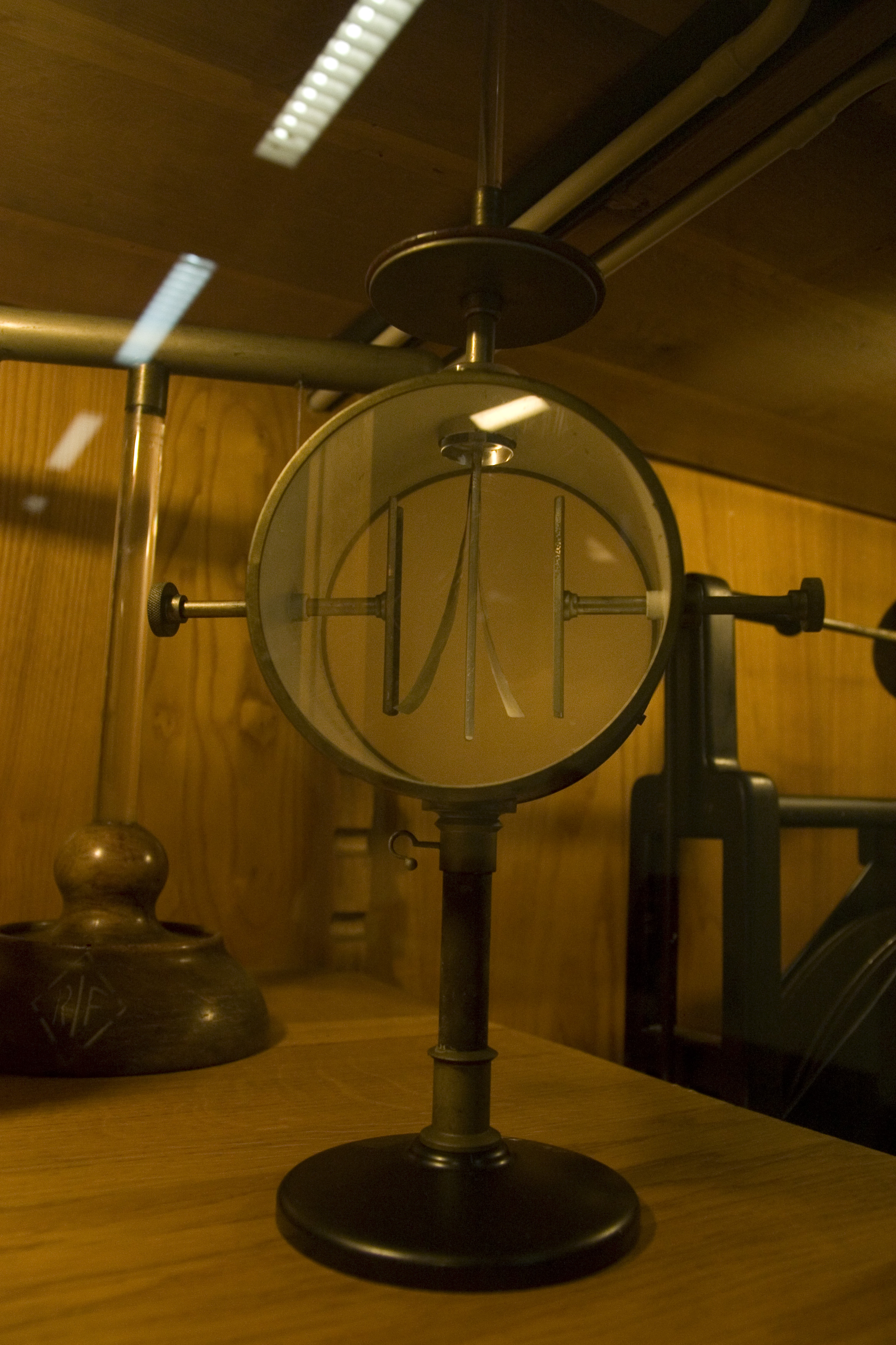 Gold-leaf electroscope. Located at Ed. Marconi, physics department, Rome university "La Sapienza".